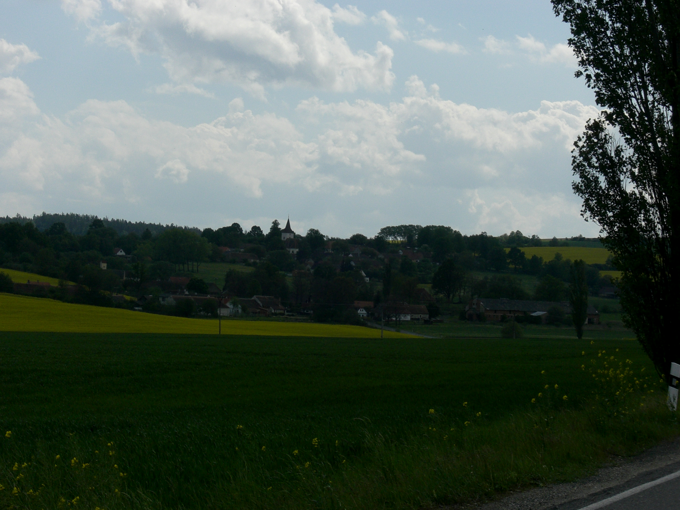 Minice village in Písek district, Czech Republic.